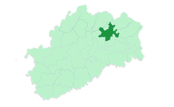 Canton of Saint-Sauveur